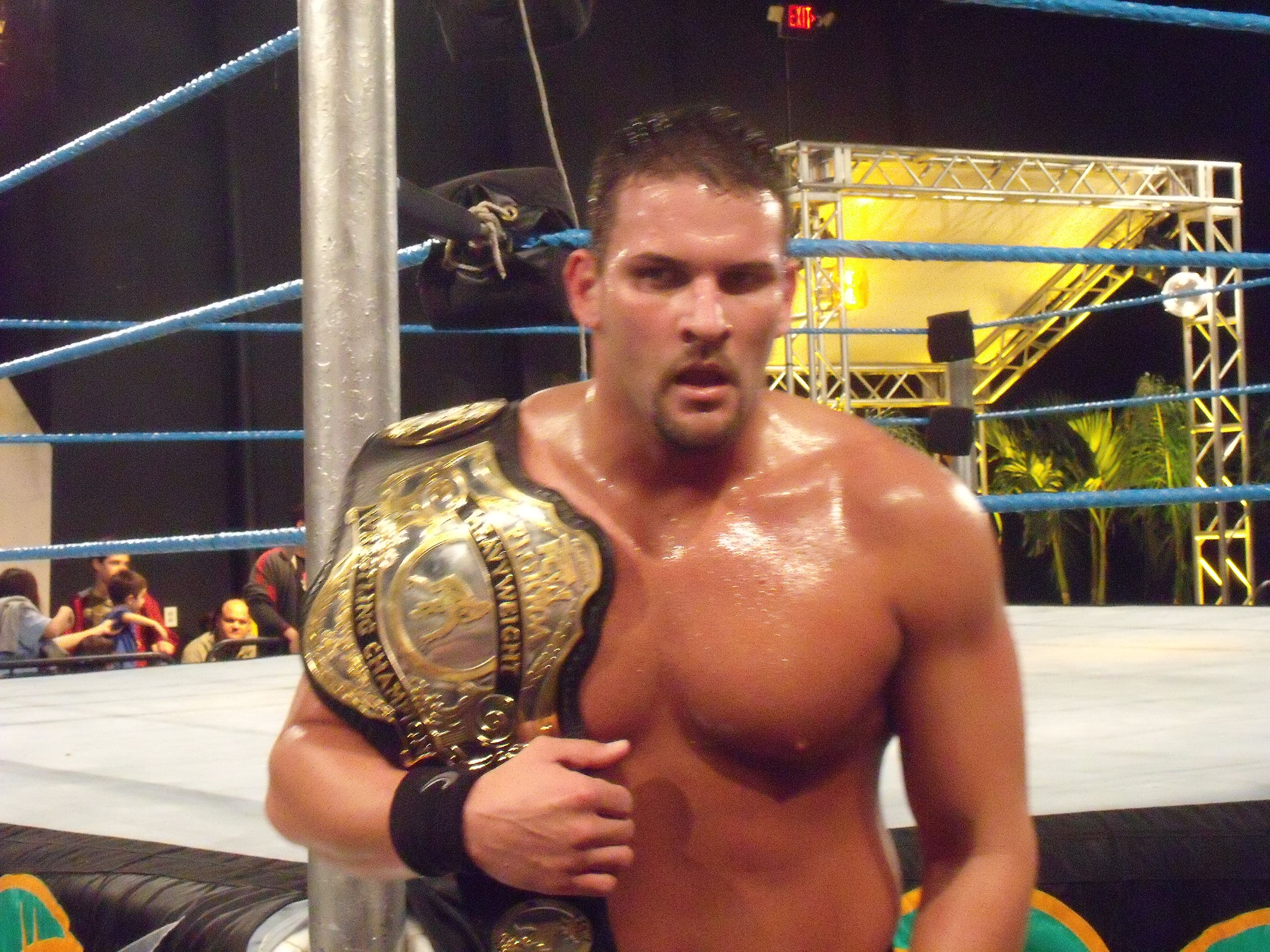 Former FCW Heavyweight Champion defeated Sheamus.